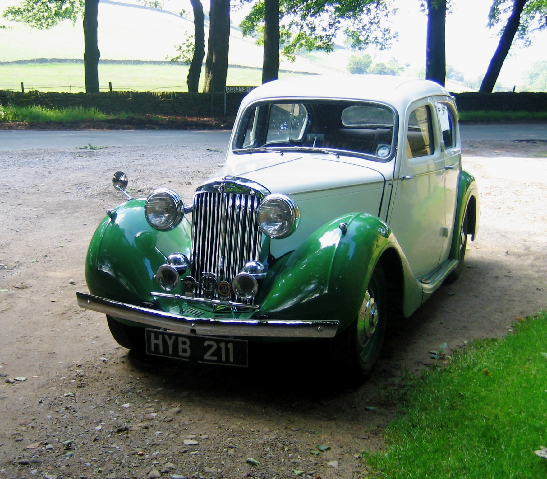 Restored 2009 I have cropped the picture savagely. This makes it a less satisfying picture for viewing on a full-size screen, but more suitable for inclusion beside the text of an article (I think). First registered 18 November 1946 says DVLA